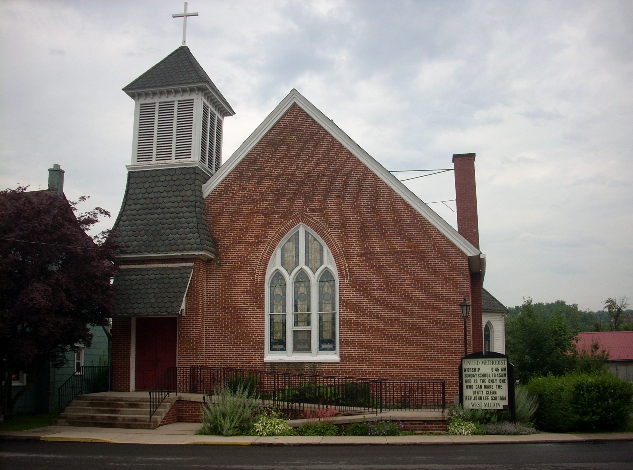 My grandfather was the pastor of this church in West Mitlon, Pennsylvania during the 1950s.